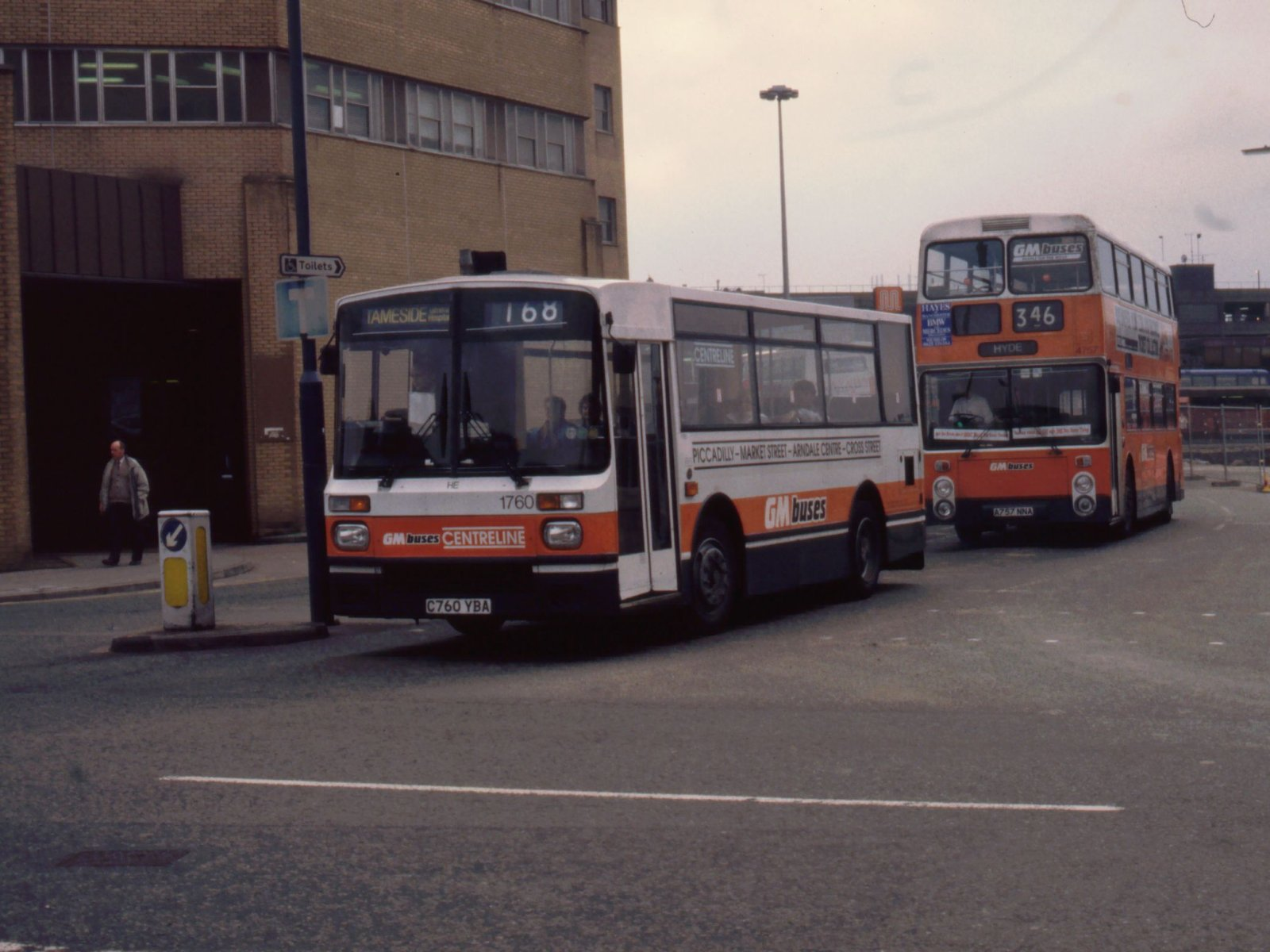 GM Buses 1760 C760YBA